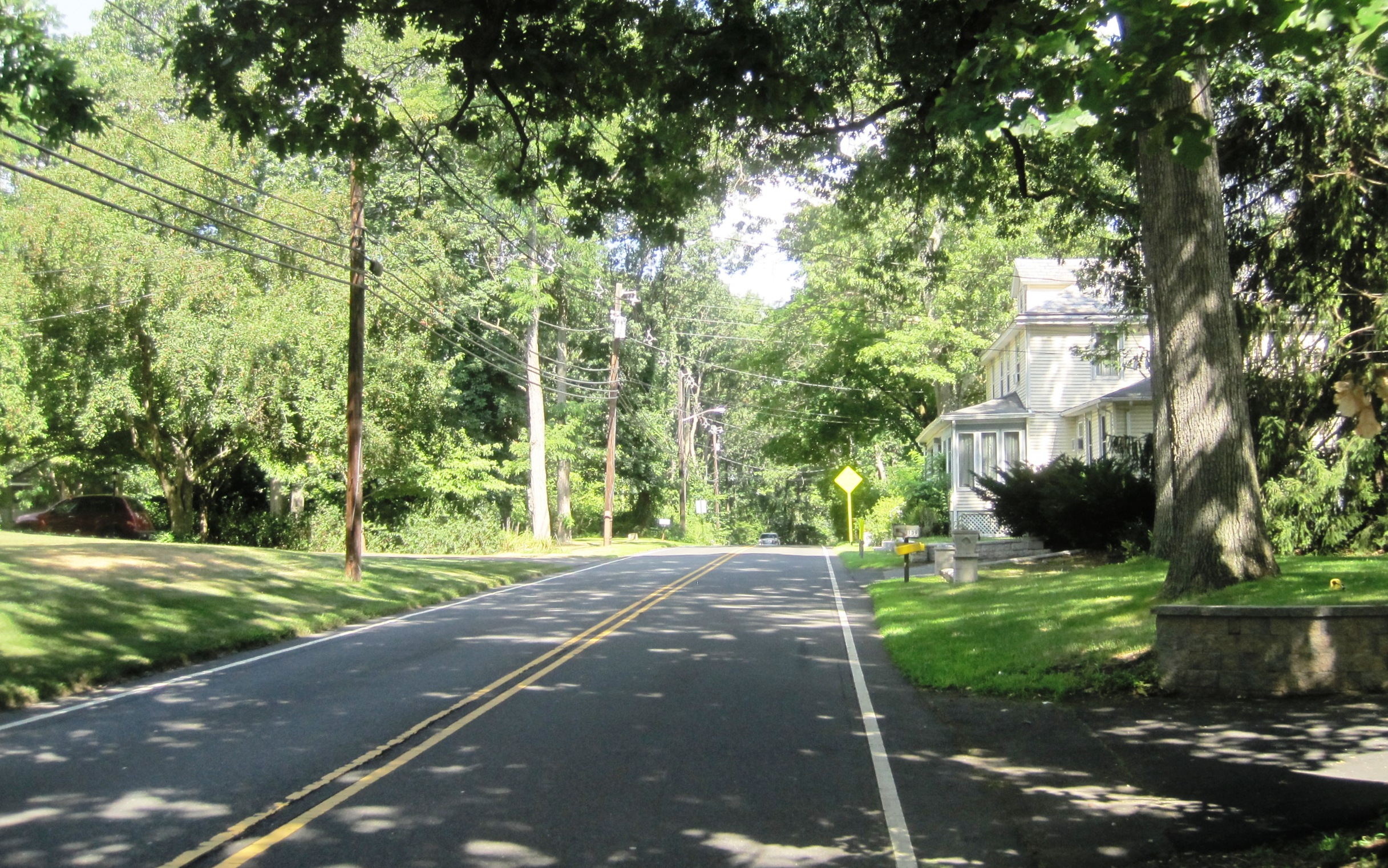 Photo of Brookview, New Jersey, an unincorporated community within East Brunswick. Photo taken on westbound Church Lane.